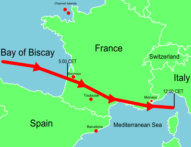 A map of Europe showing the location of the January 2009 Mediterranean storm. The red line shows the track of the storm.